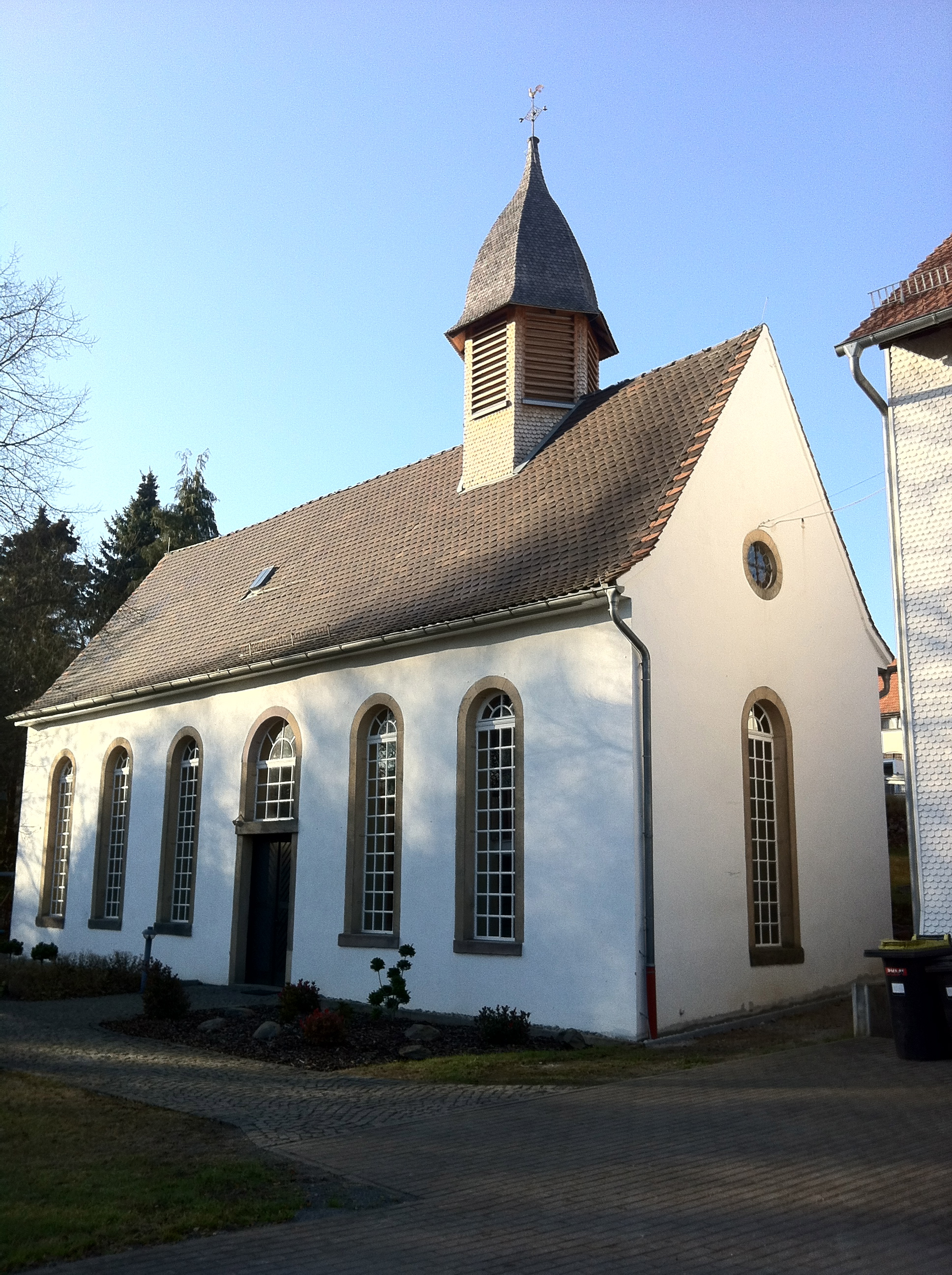 Protestant Church in Heisters